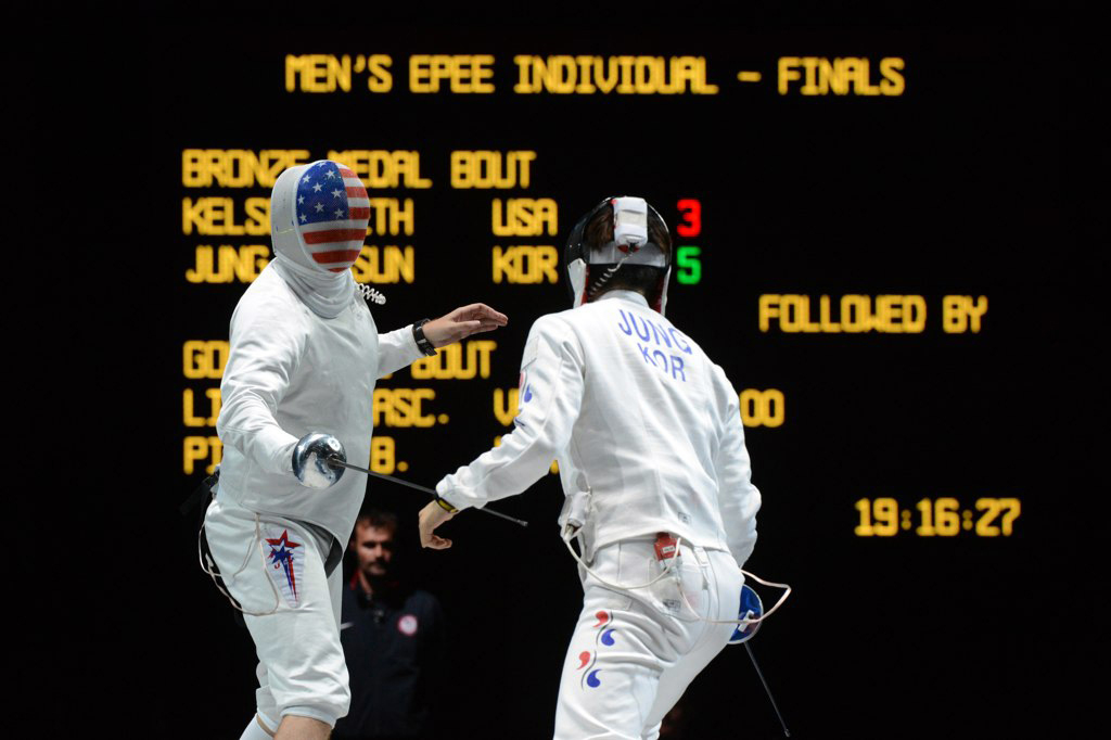 Capt. Weston "Seth" Kelsey loses the Olympic men's epee individual bronze-medal match, 12-11, to Korea's Jung Jinsun in sudden-death overtime Aug. 1, 2012 at the ExCel South Arena in London. (U.S. Army photo/Tim Hipps)